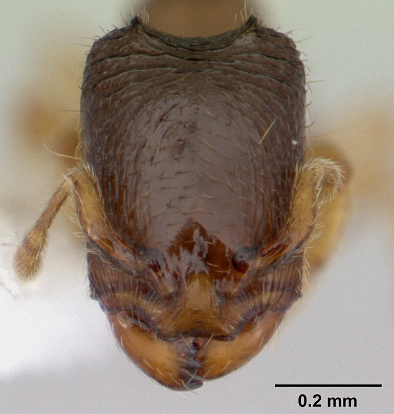 Head view of ant Carebara intermedia specimen casent0603534.